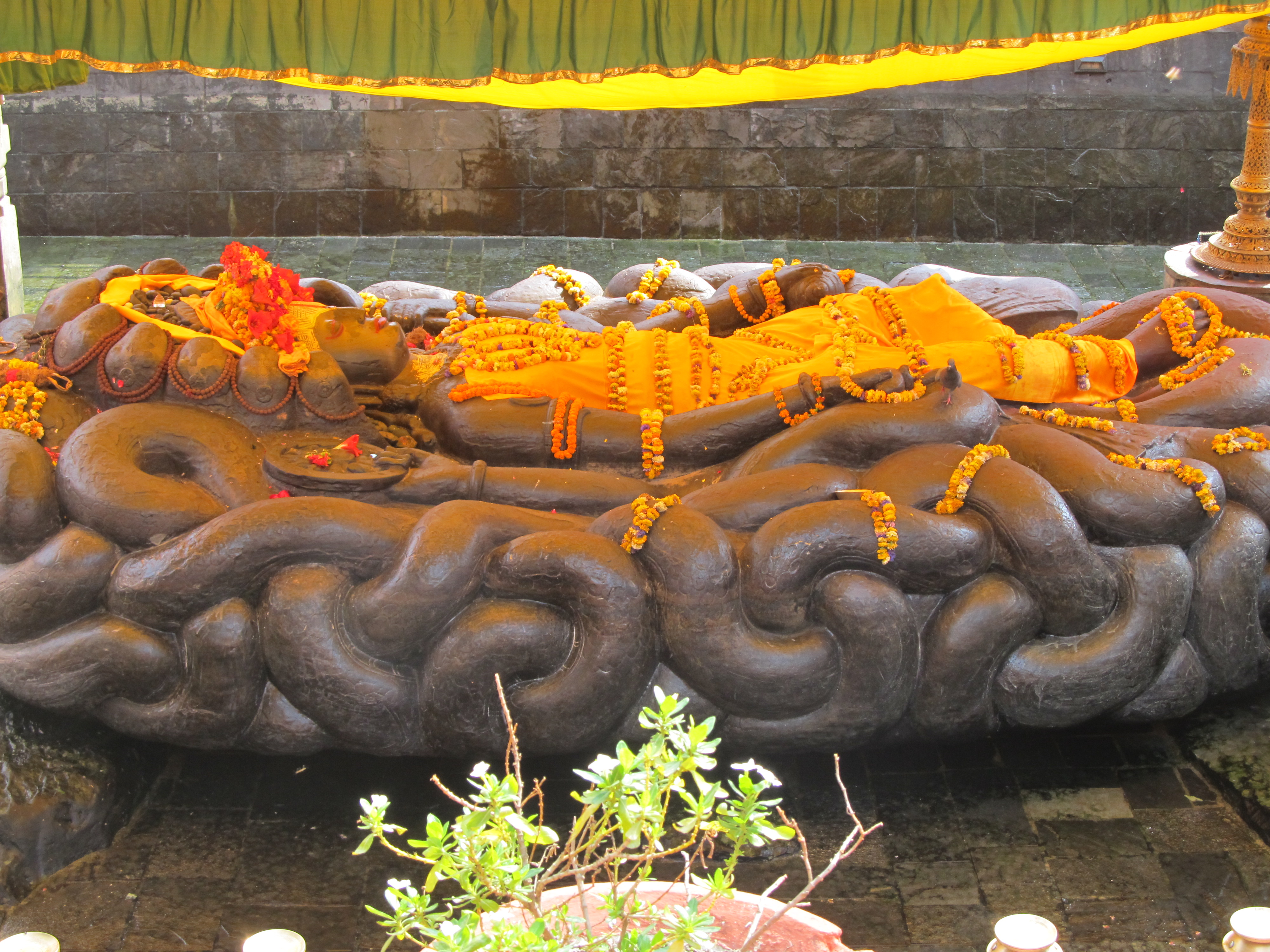 Budhanilkantha (Sleeping Vishnu)